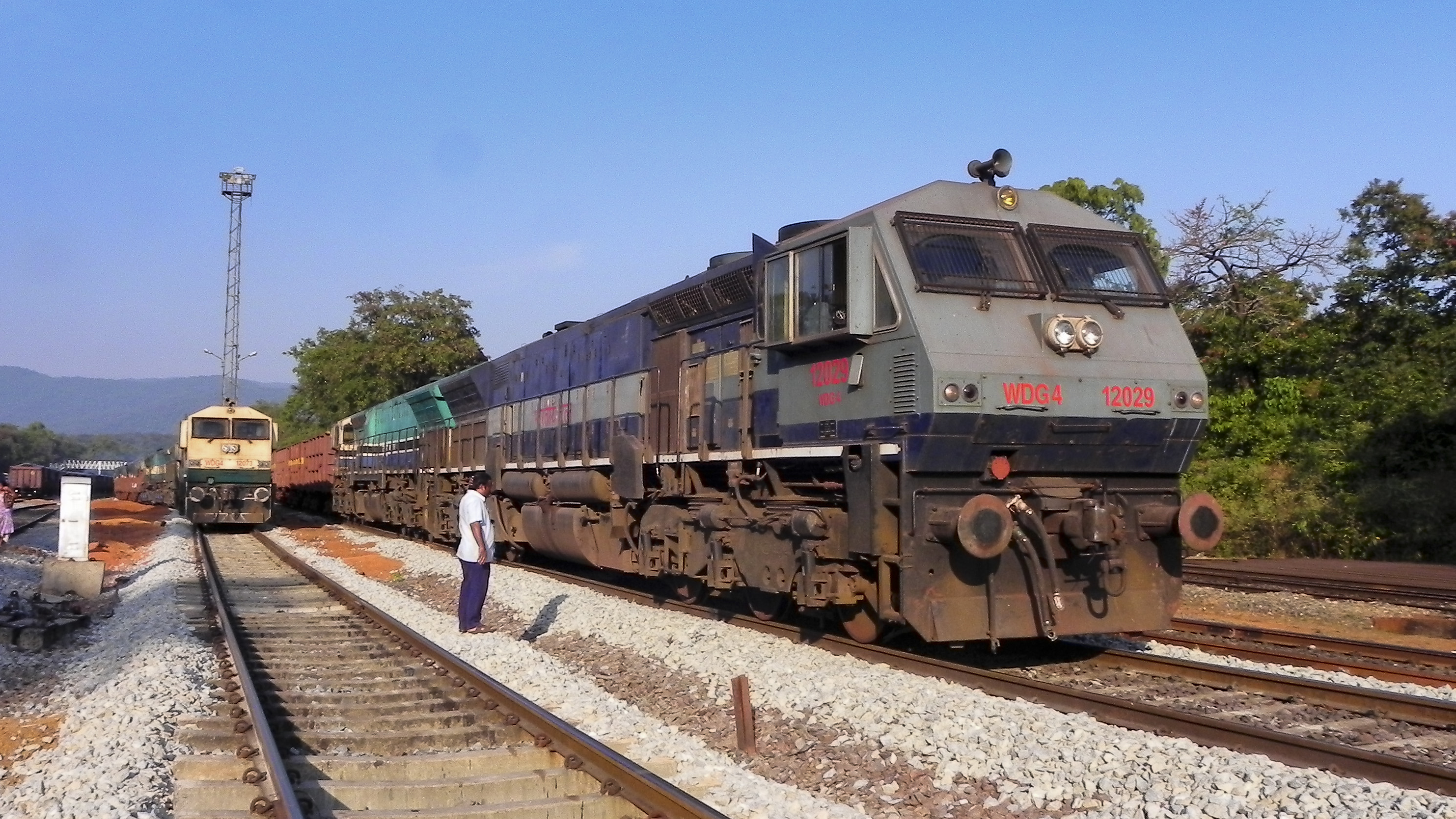 WDG-4 12029(Homed at Hubli)